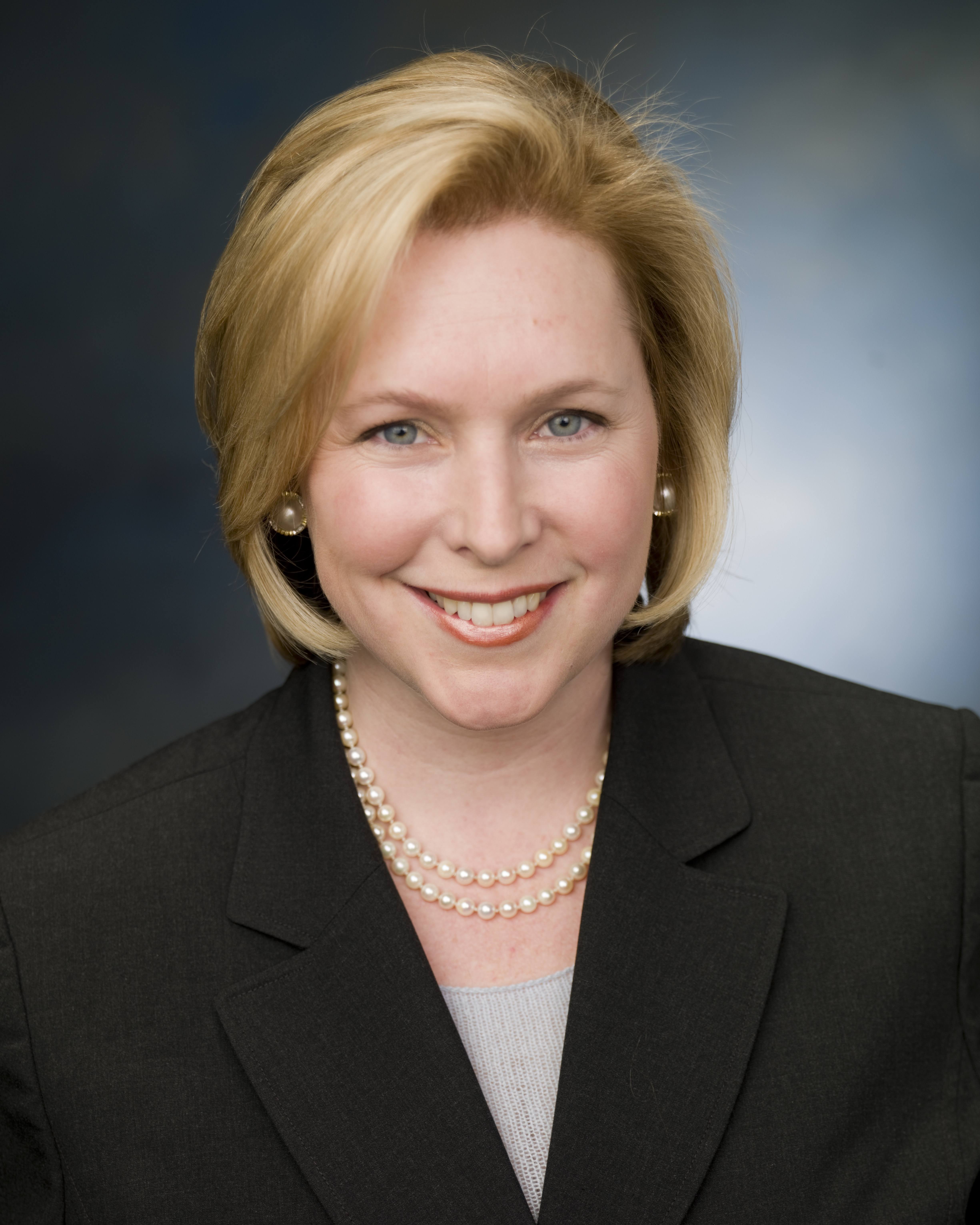 Official photo of Senator Kirsten Gillibrand (D-NY).